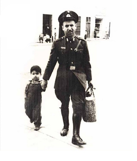 Civil Guard Emiliano Gamarra and his son, Ronald Gamarra.